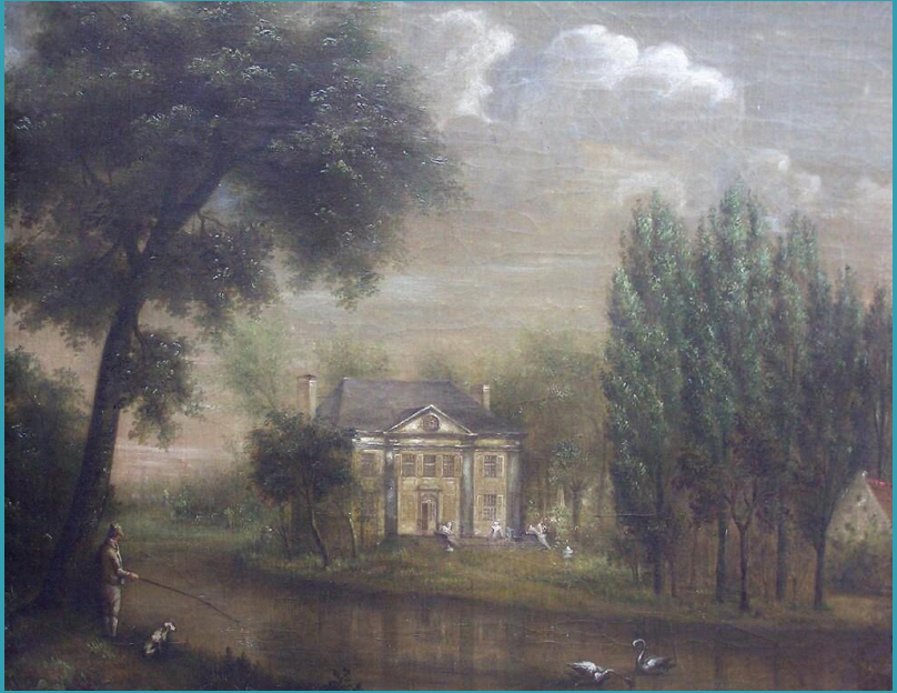 Picture of oil painting of Chateau de Surmont